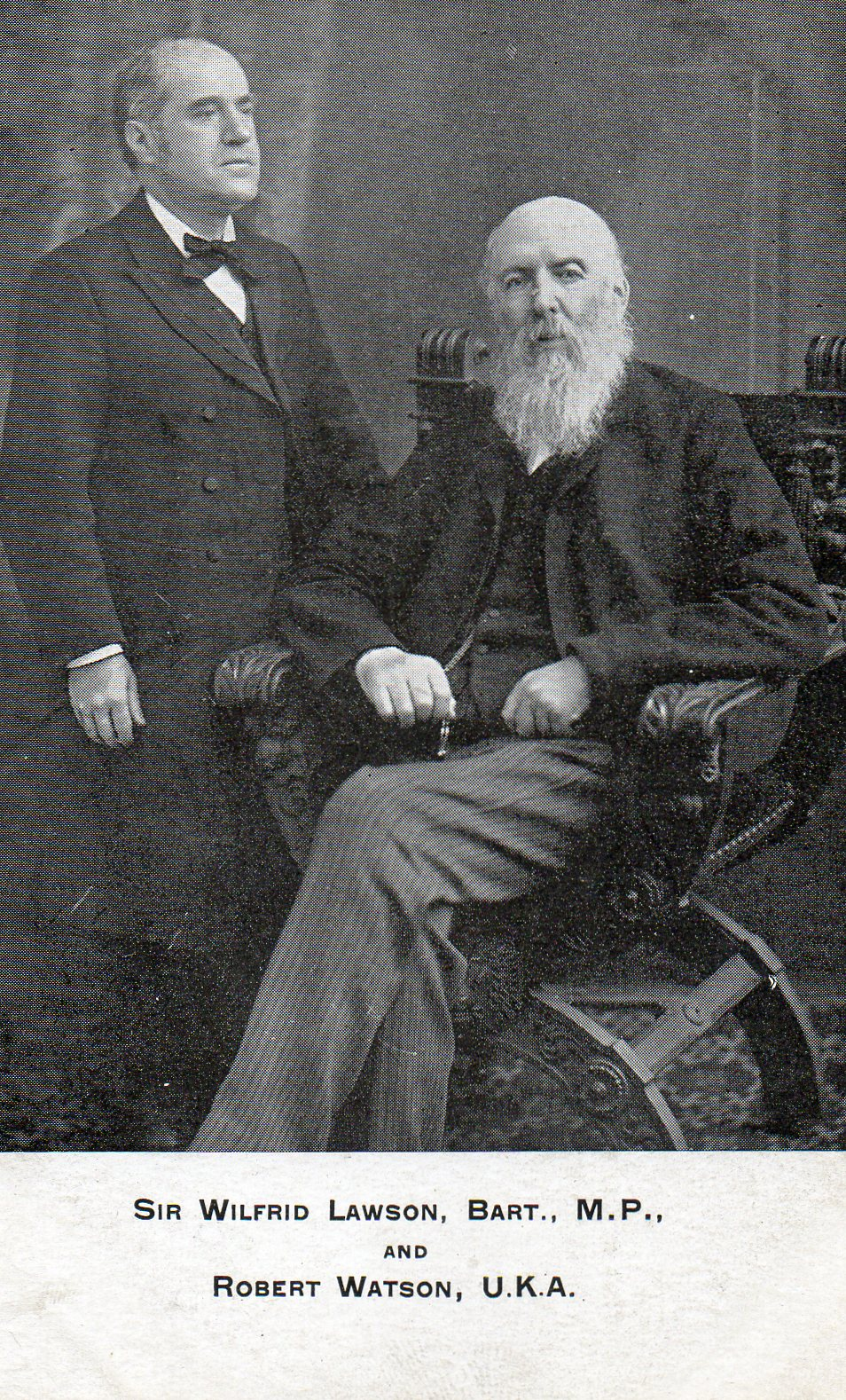 english Politician